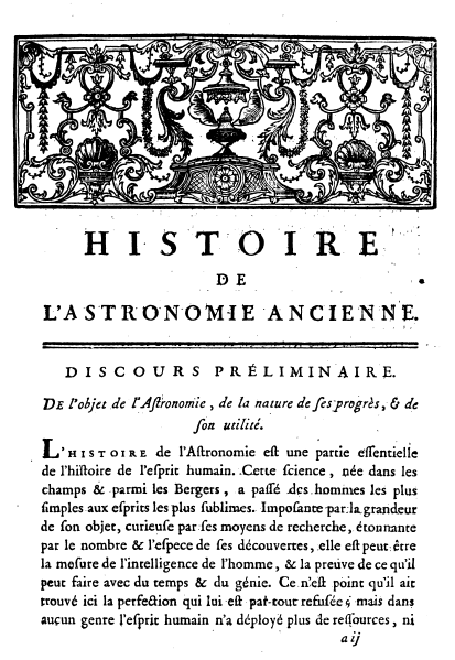 First page of the chapter Discours préliminaire of the Histoire de l'astronomie ancienne by Jean Sylvain Bailly.